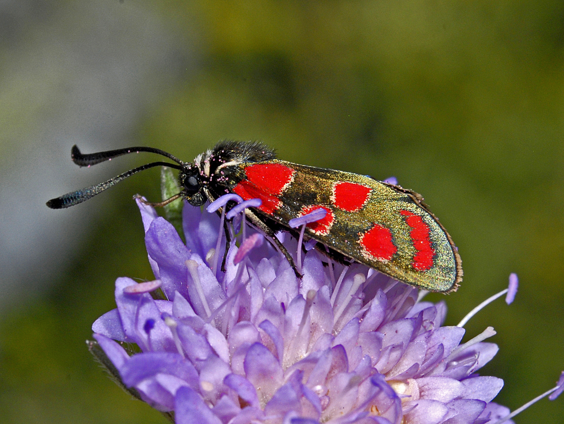 Zygaena carniolica. Col du Lautaret, France